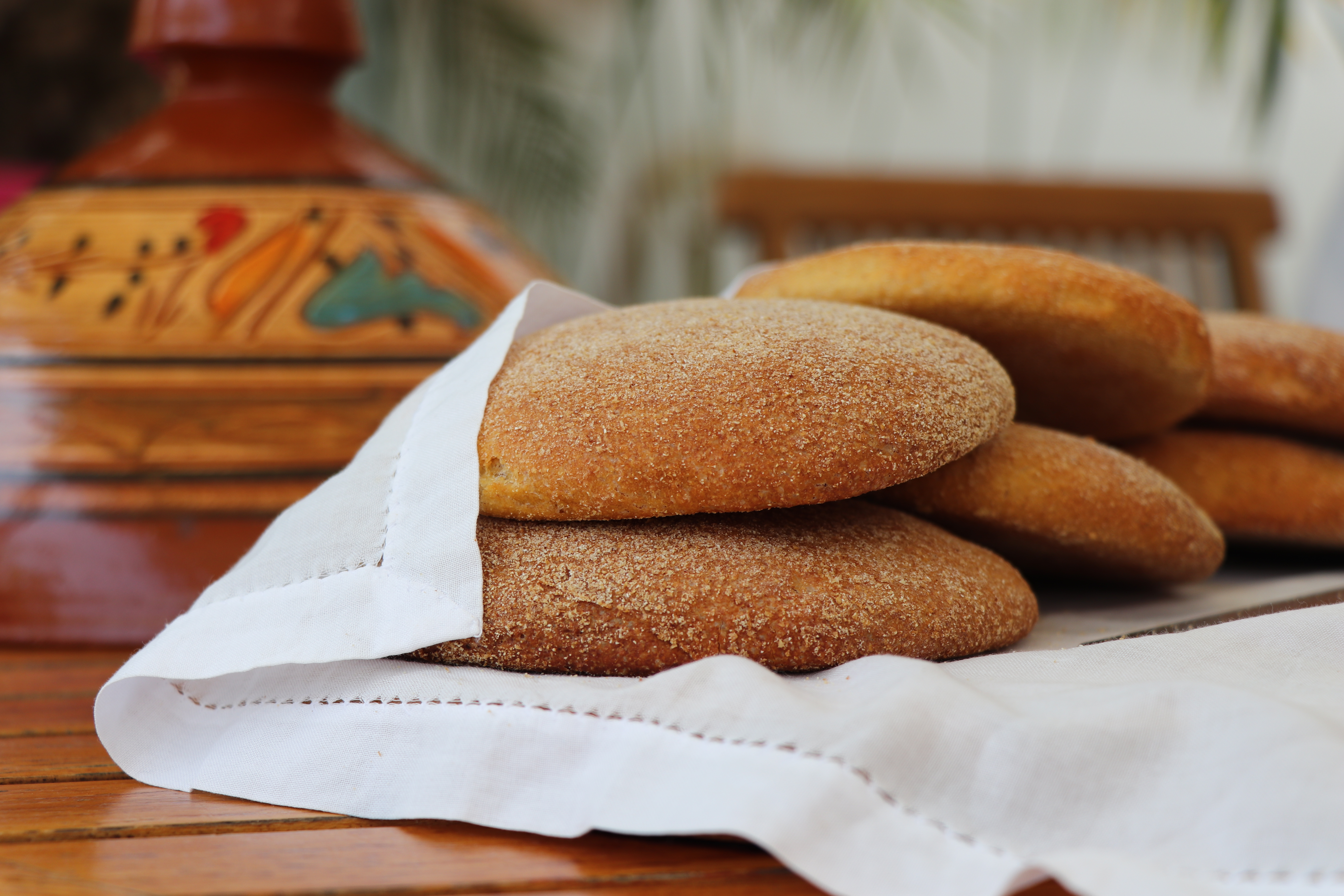 This is an image with the theme "Africa on the Move or Transport" from: Morocco